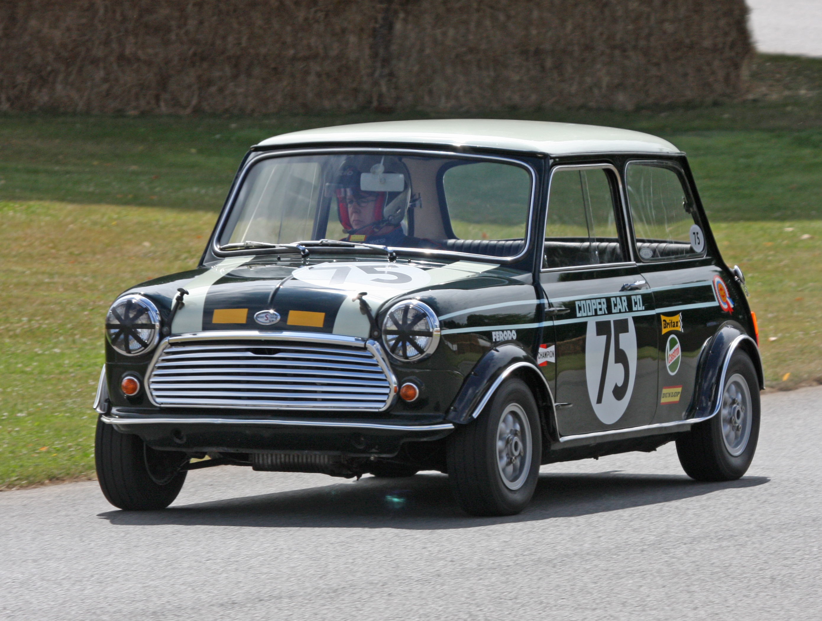 1968 Morris Mini Cooper S